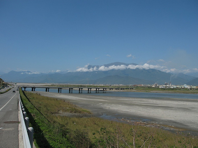 Looking northwest towards downtown Hualien and the river from Provincial Highway No.11 in Taiwan.